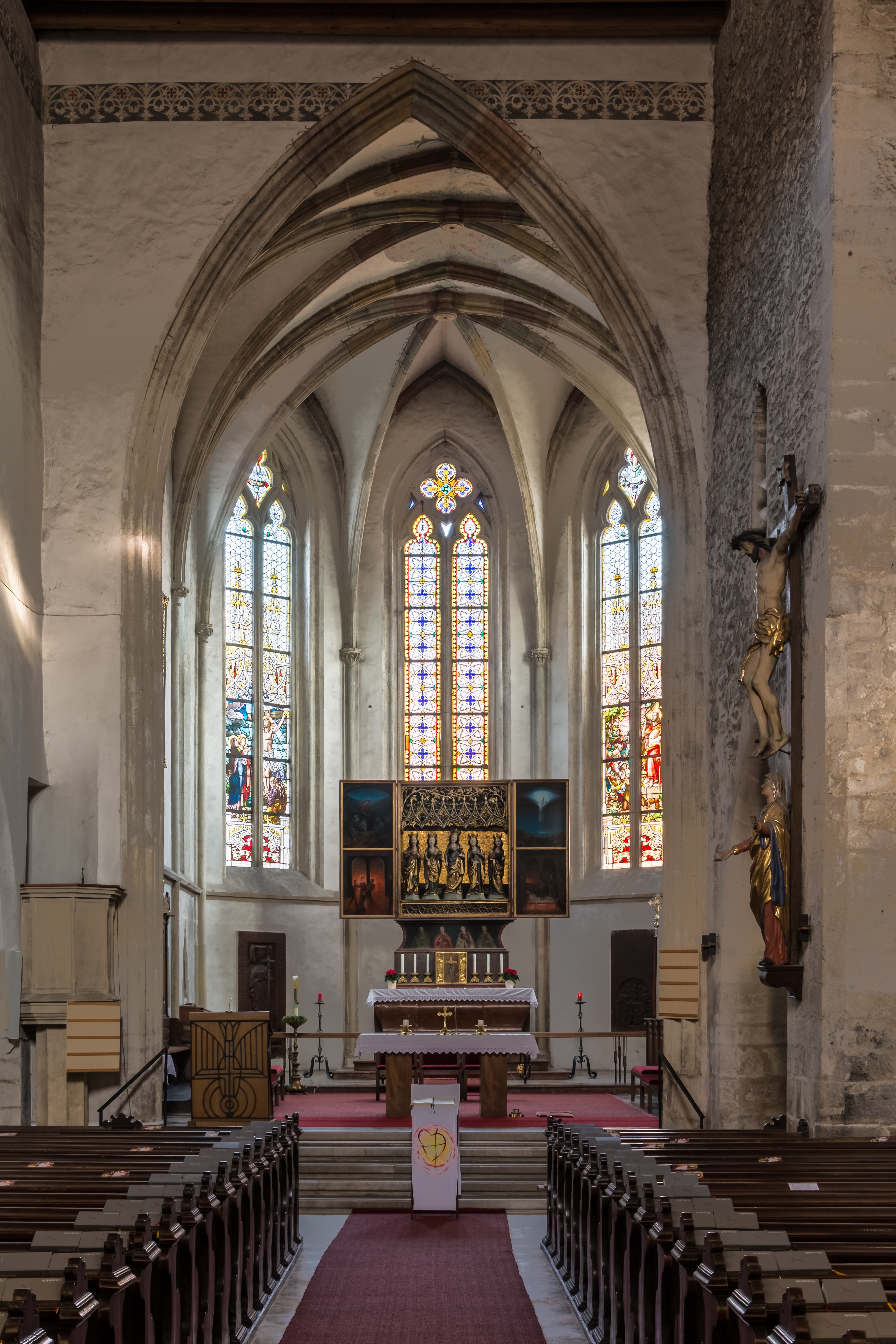 Interior of the parish church Langenlois, Lower Austria